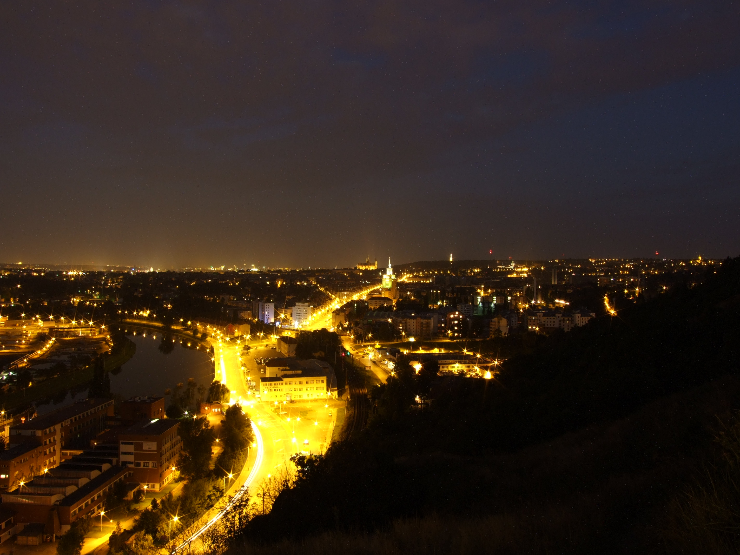 View from Baba ruins towards centre of Prague, CZ